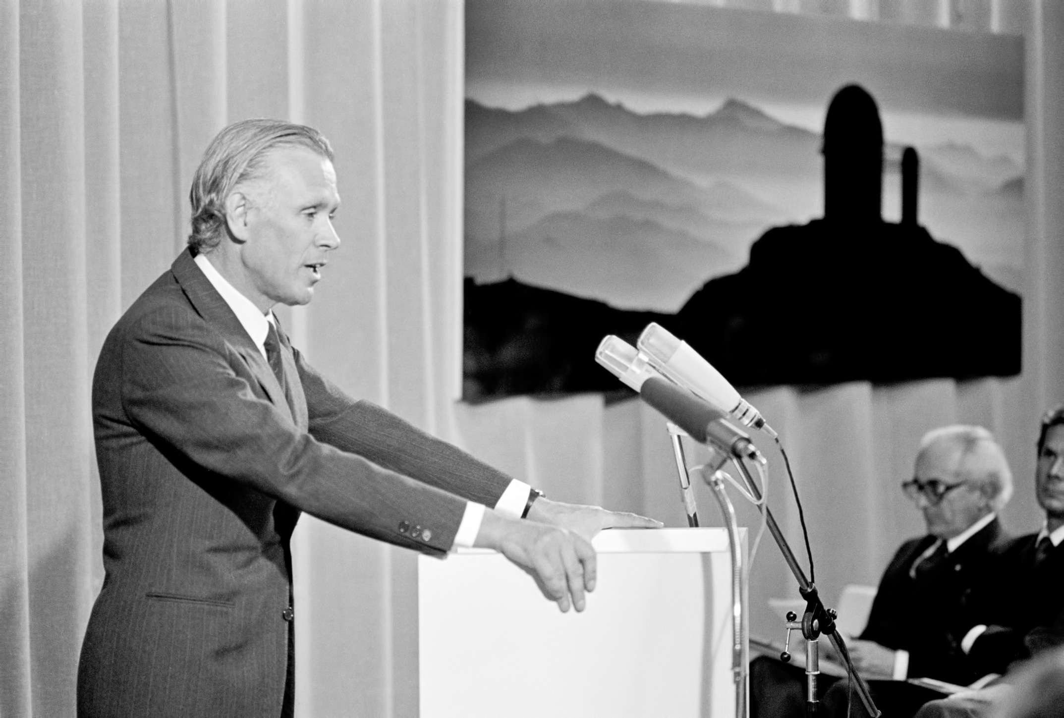 Lodewijk Woltjer welcoming the guests to the ESO Garching Headquarters inauguration.